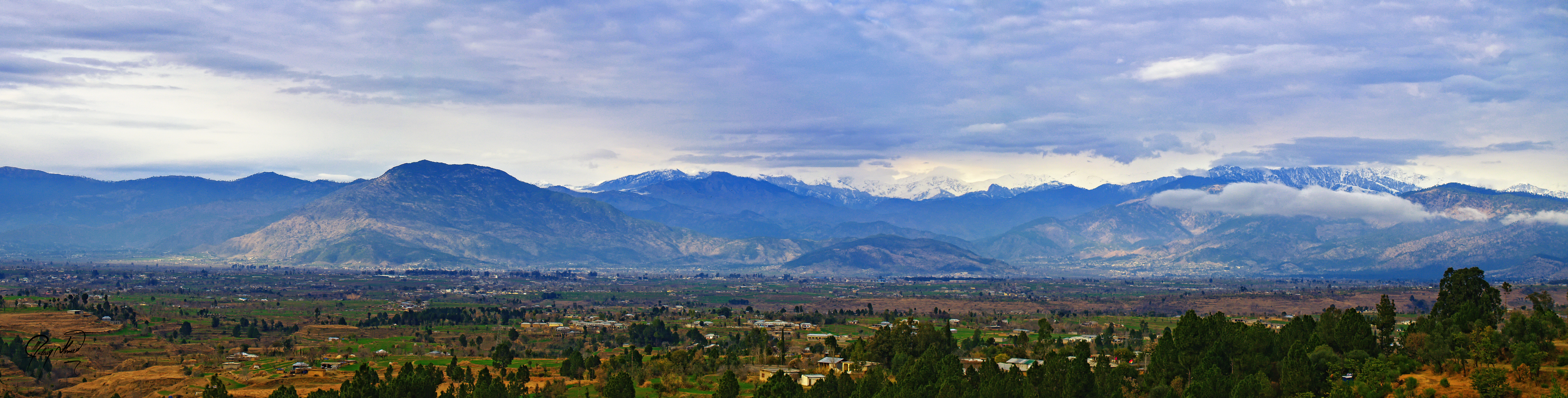 Panoramic view of the Mahsehra, NWFP, Pakistan from the Mansehra-Balakot Road.